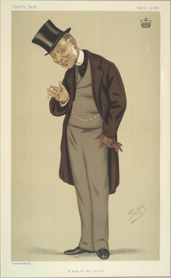 Statesmen No.220: Caricature of Viscount Torrington. Caption reads: "A man of the world"